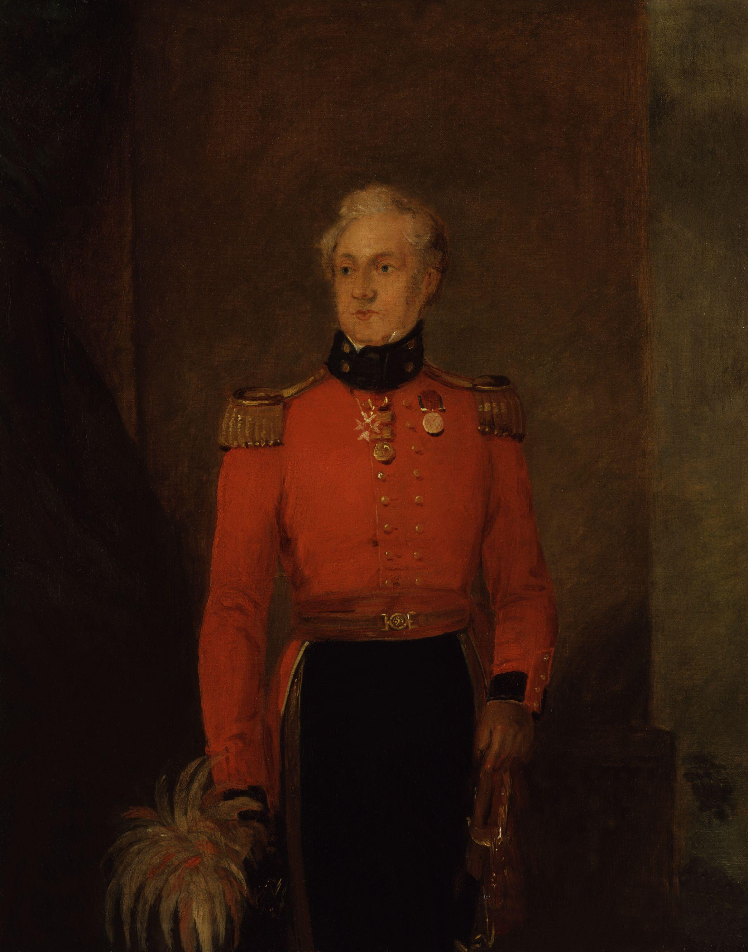 Sir Charles Rowan, by William Salter (died 1875). All images in this batch have been confirmed as author died before 1939 according to the official death date listed by the NPG.